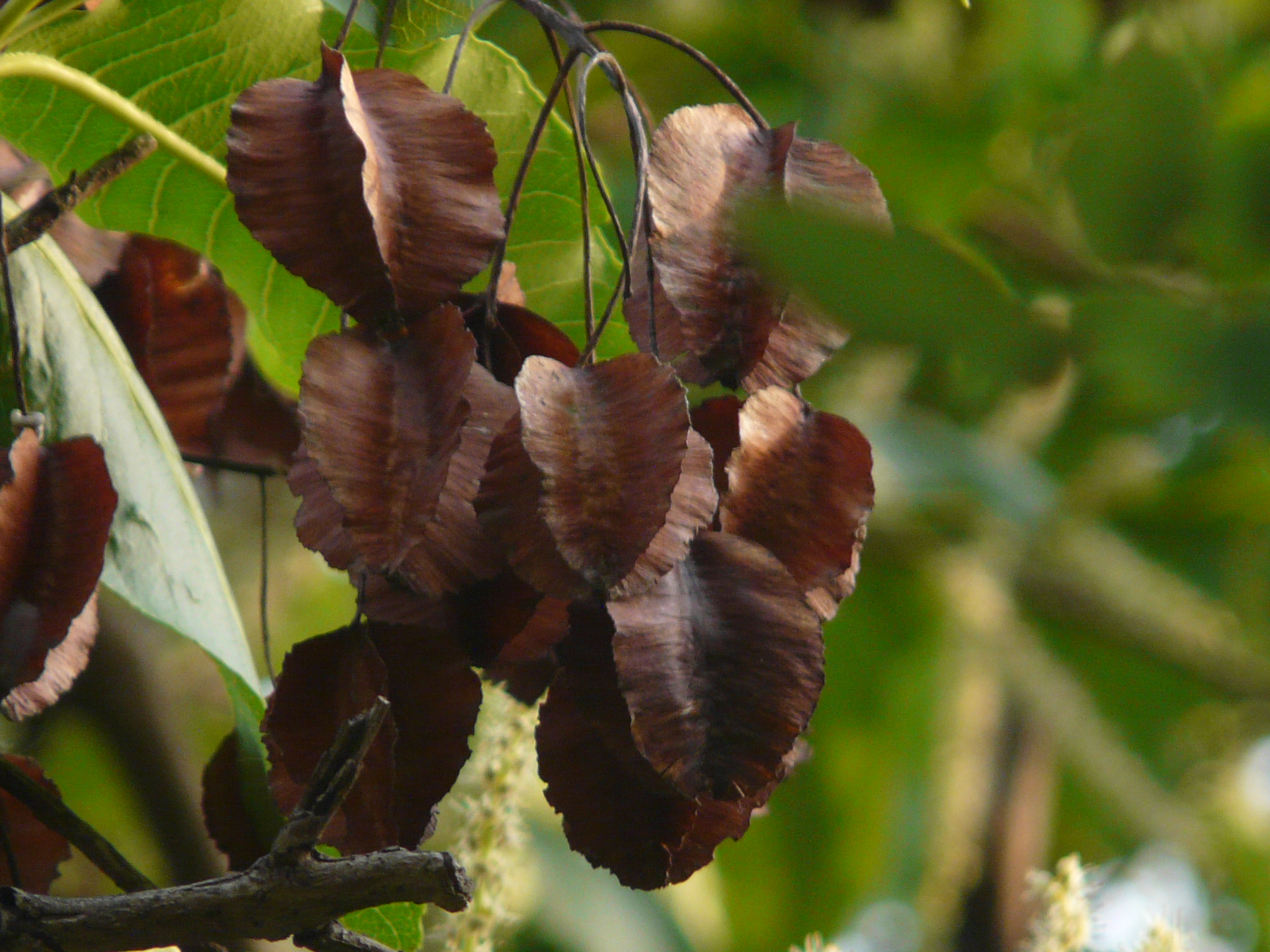 Combretaceae (rangoon creeper family) » Terminalia elliptica ter-min-NAY-lee-uh -- from Latin terminus (end), referring to leaves at the end of shoots ee-LIP-tih-kuh -- meaning, elliptical, about twice as long as wide commonly known as: black murdah, crocodile-bark tree, Indian laurel, silver grey wood, white chuglam • Bengali: asan • Gujarati: સાદડ sadad • Hindi: असना or आसन asana, साज saj • Kannada: ಕರಿಮತ್ತಿ karimatti • Marathi: अयन or आईन or ऐन ain, असण or असणा asan, साताडा satada, शार्दूल or शार्दूळ shardul • Oriya: sahaju • Sanskrit: रक्तअर्जुन raktarjun • Tamil: அருச்சுனம் aruccunam, கருமருது karumarutu, மருதமரம் marutamaram • Telugu: ఇనుమద్ది innu maddi, చండ్ర మద్ది nalla maddi Native to: tropical Asia, mainly India and Burma References: Flowers of India • Wikipedia • NPGS / GRIN